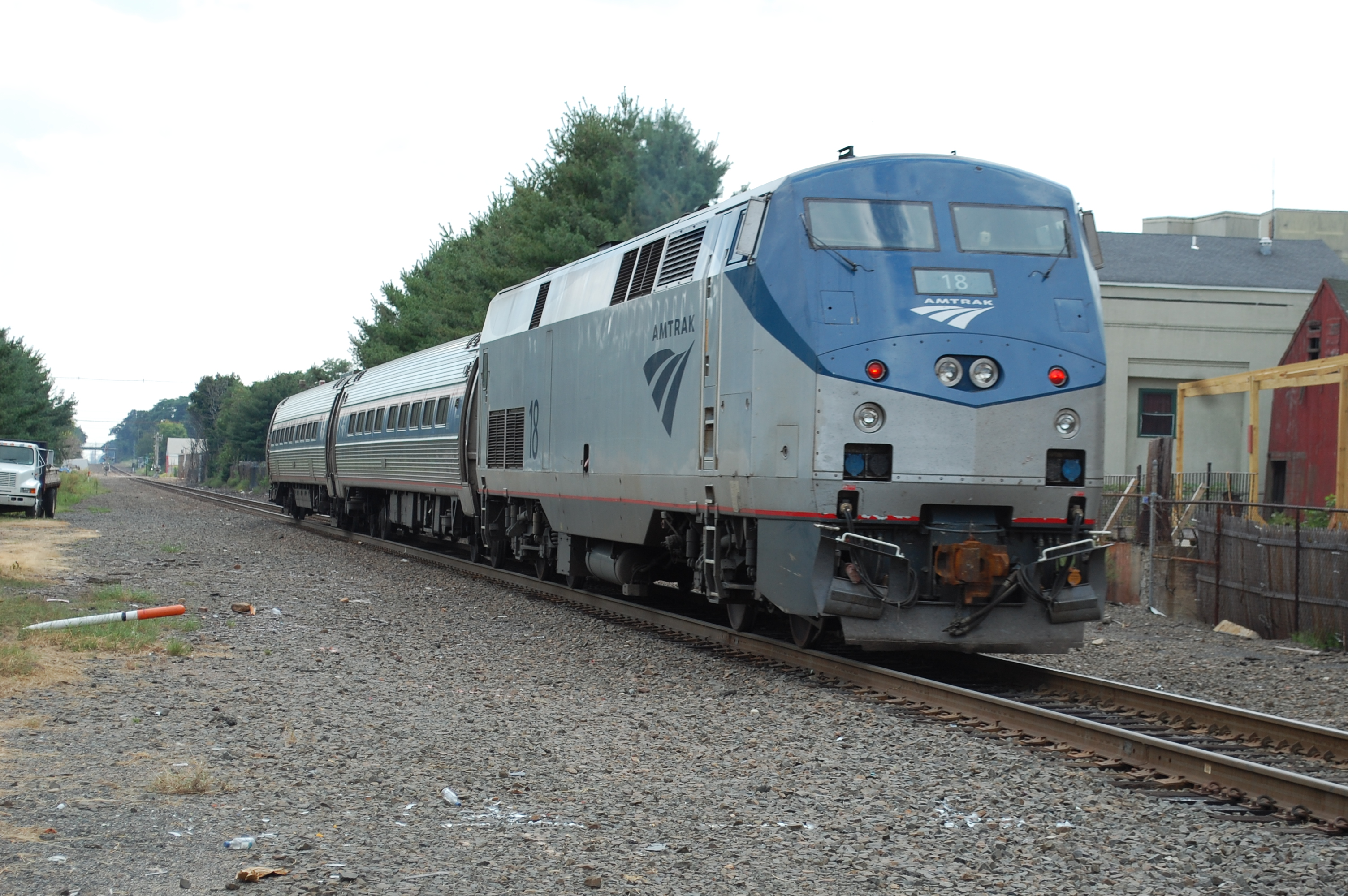 Southbound Amtrak New Haven-Hartford-Springfield "Inland Route" Shuttle seen passing Wallingford, Conn. on 2012-09-01 with Eng 18 and two cars